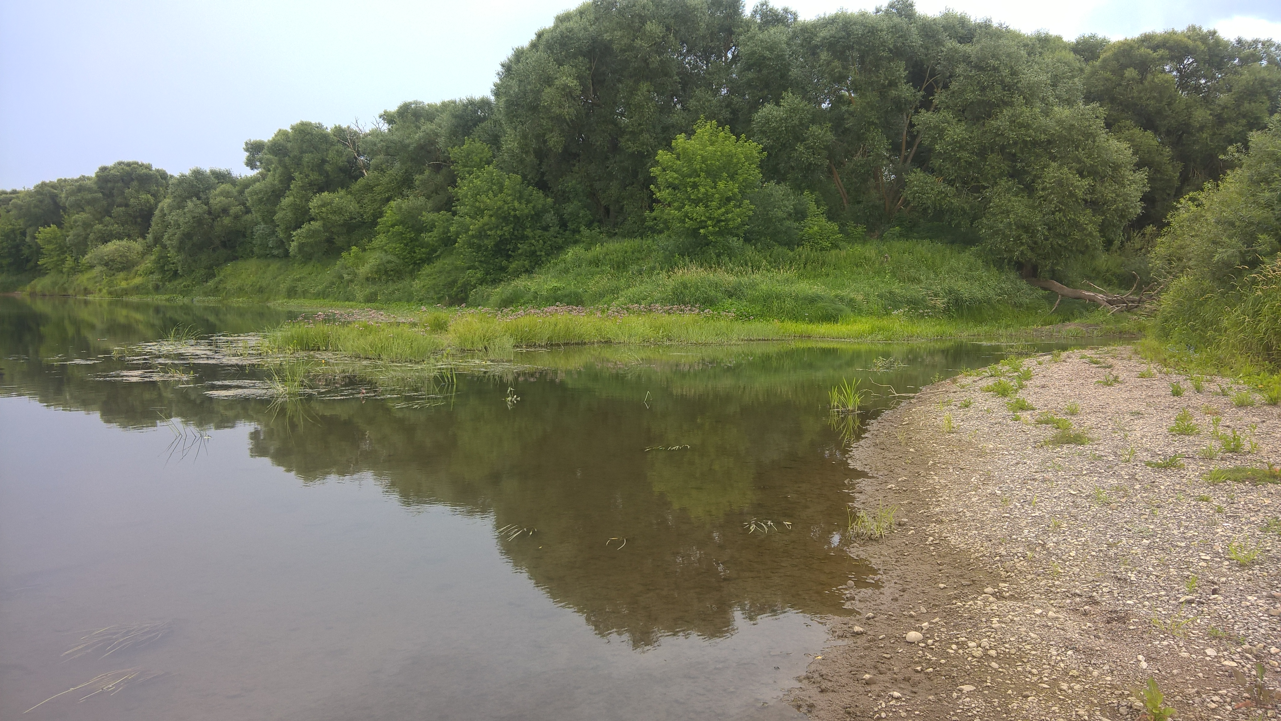 Tributary of the river Dnieper Rasasenka. River mouth. Dubroŭna region. Belarus. Беларуская (тарашкевіца): Левы прыток Дняпра — Расасенка. Вусьце.